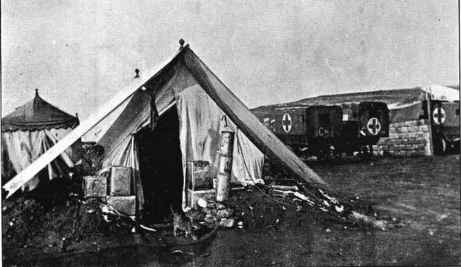 Scottish Women's Hospital - Ostrovo - Dressing station at Dobroveni